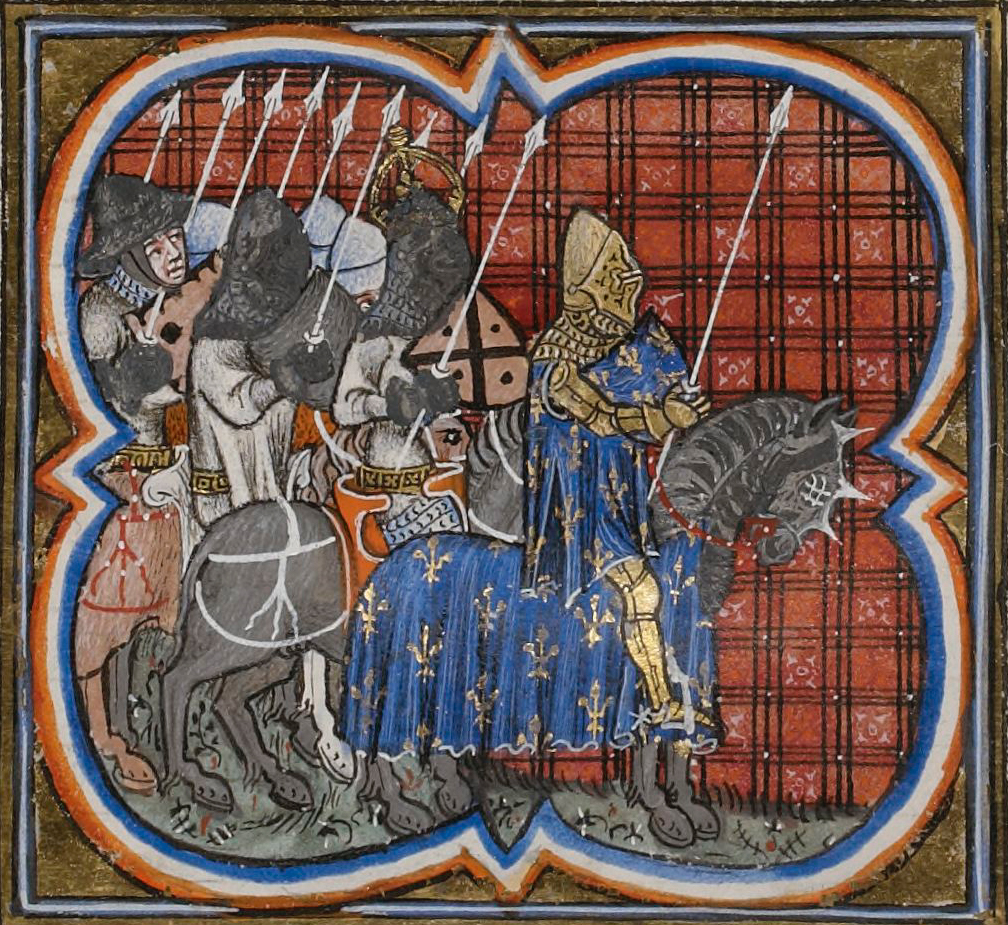 Louis VII and Emperor Conrad III set out for the Second Crusade.